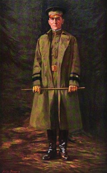 Portrait of Brigadier General Brice P. Disque, Commander of the Spruce Production Division, 1917-1918; during World War I, Disque commanded 28,000 Army troops assigned to logging camps and lumber mills in the Pacific Northwest; Disque’s division headquarters was located in Portland, Oregon